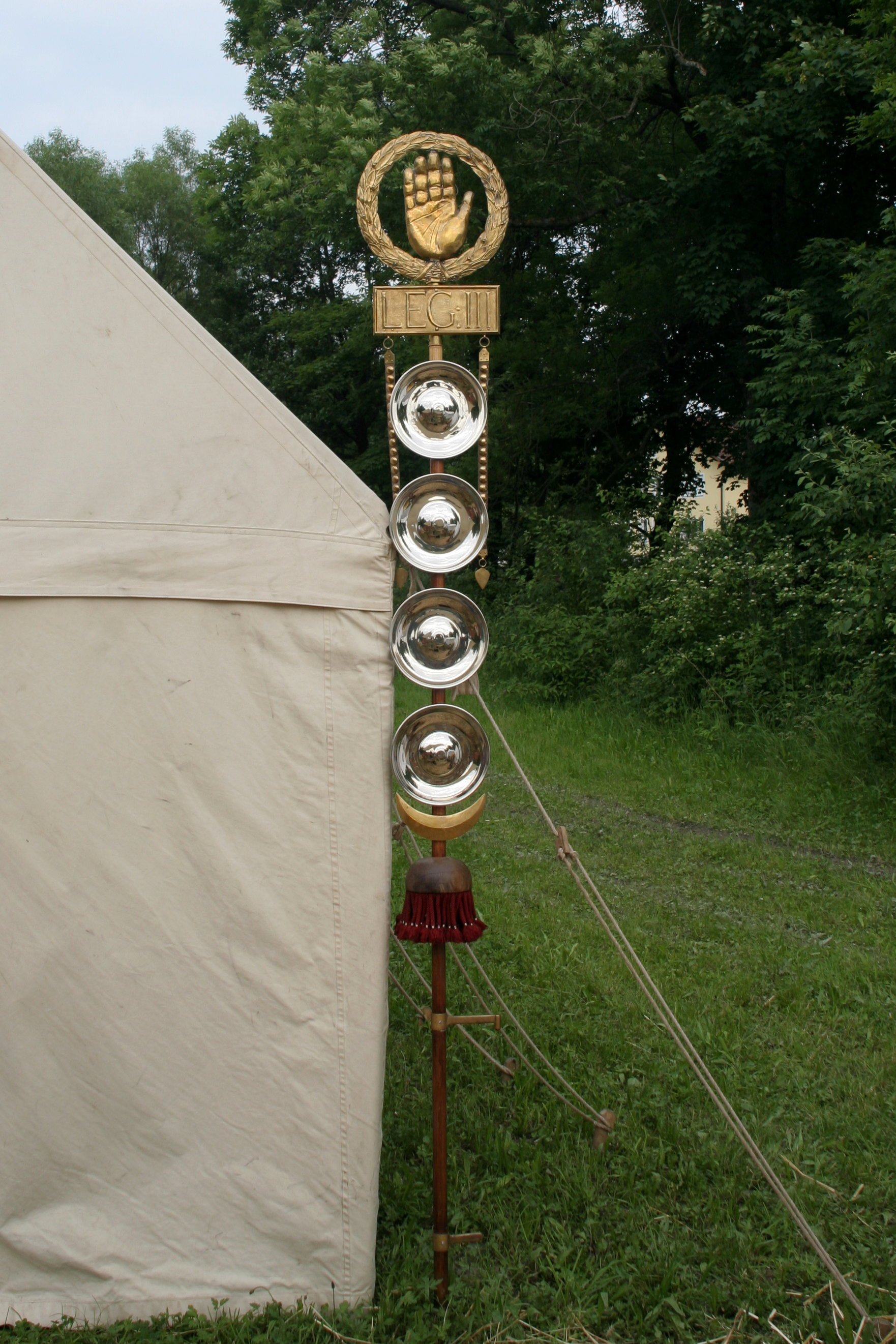 Signum Photographed by myself during a show of Legio XV from Pram, Austria